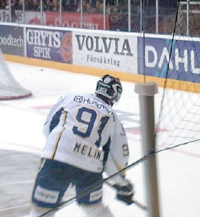 Björn Melin in HV71, icehockey player.